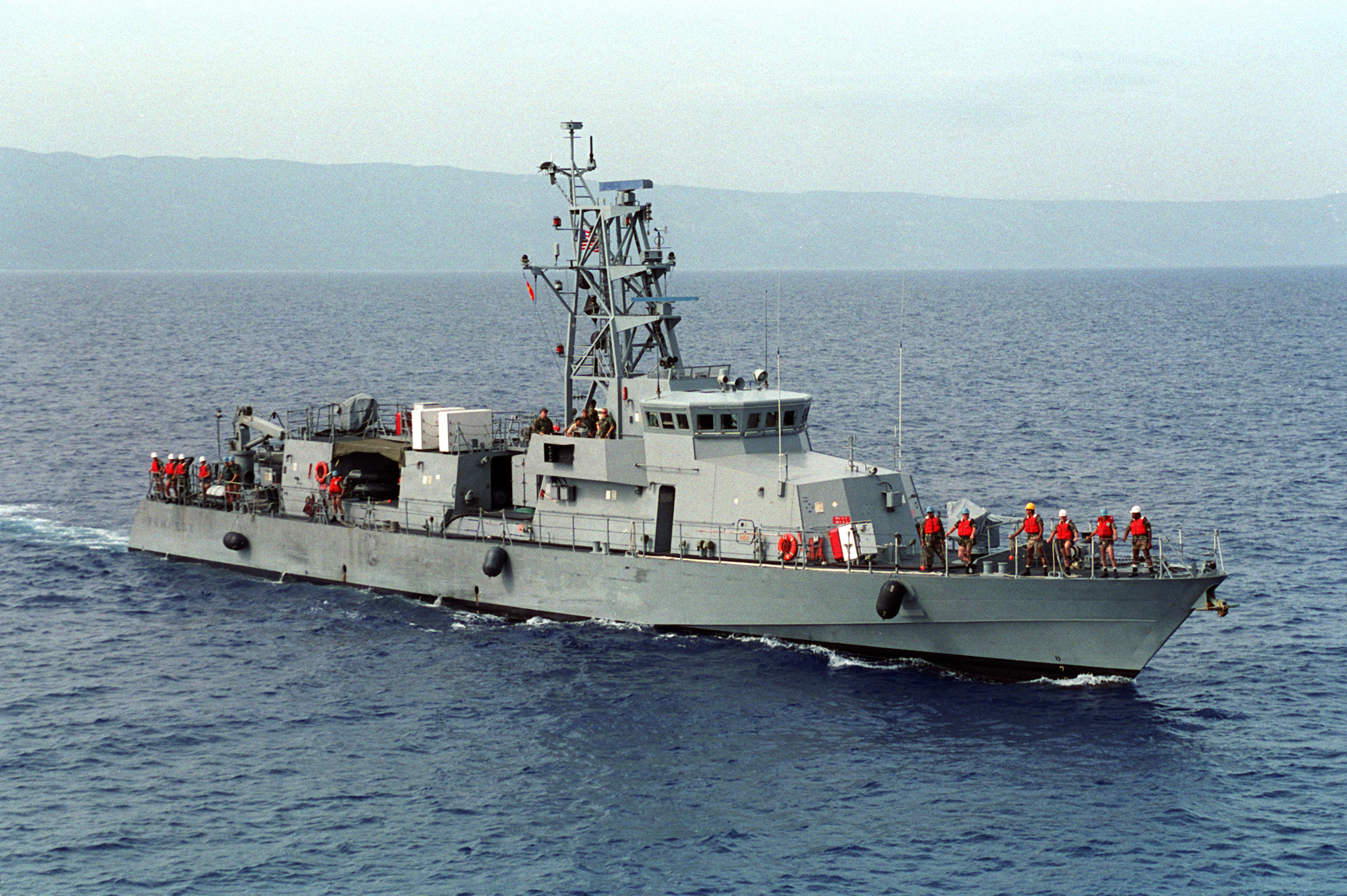 A starboard bow view of the coastal patrol craft USS TEMPEST (PC-2) underway off the coast of Haiti. The United Nations (UN) decreed a maritime embargo to force out the illegal government presently in power and to reestablish the properly elected government.